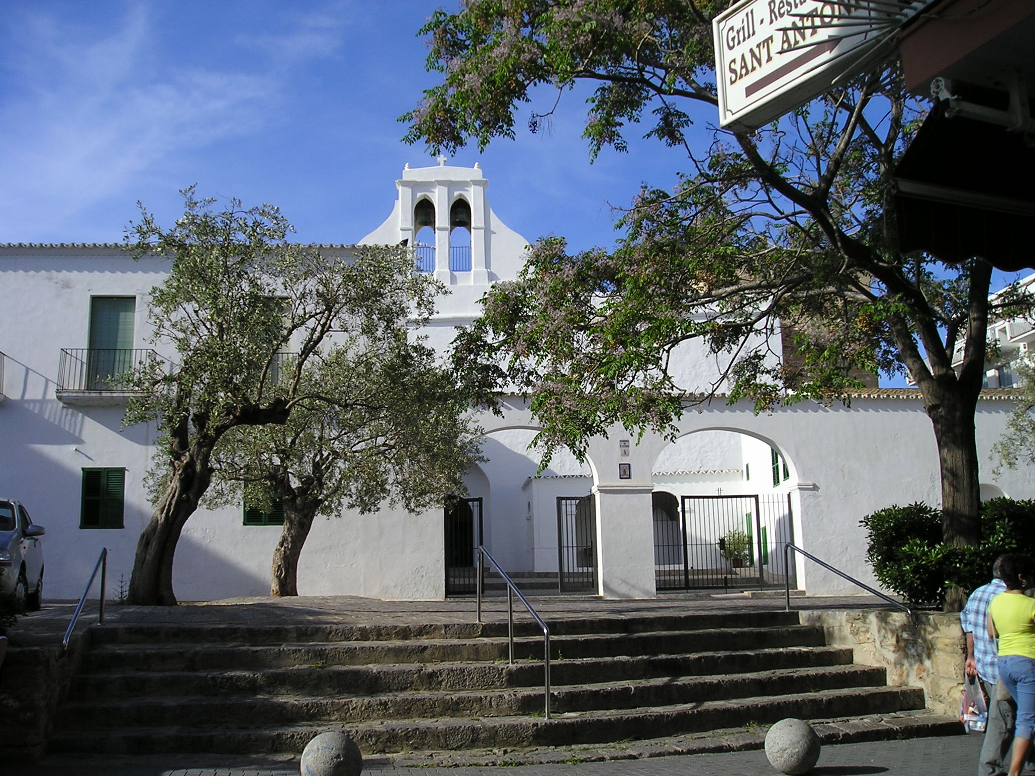 Church of Sant Antoni de Portmany, Ibiza